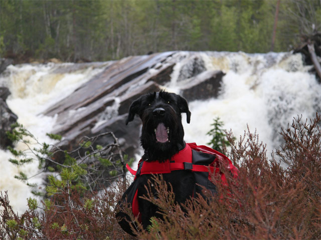 Giant Schnauzer bitch Frigg in front of waterfall near Snåsa, Nord-Trøndelag, Norway